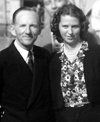 Cam and Elain Townsend in Peru